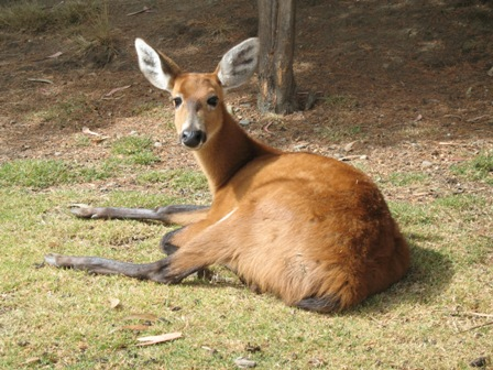 photo by Whaldener Endo date: 2006 Description: Marsh Deer (Blastocerus dichotomus).